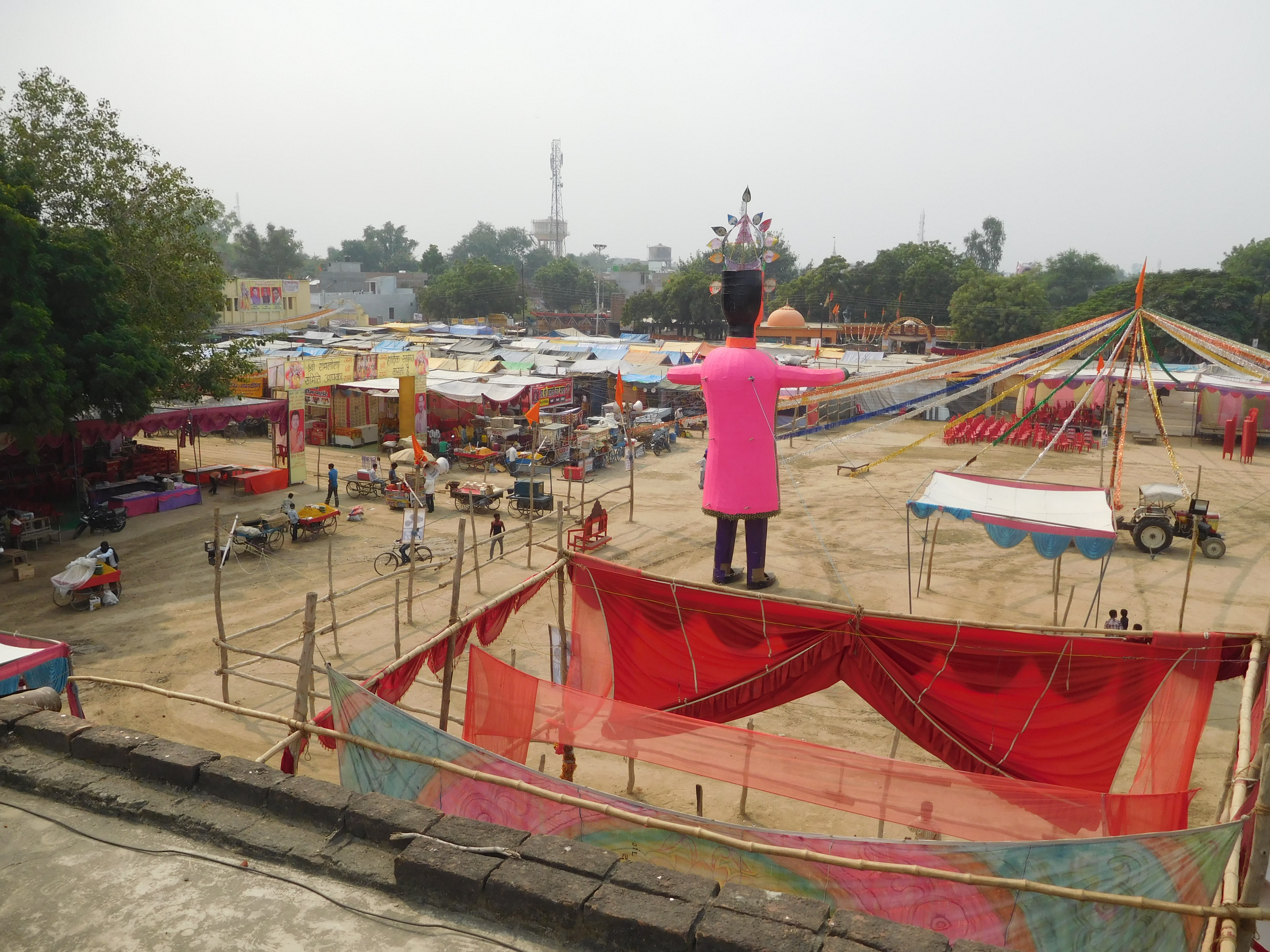 Fair View at RamLila